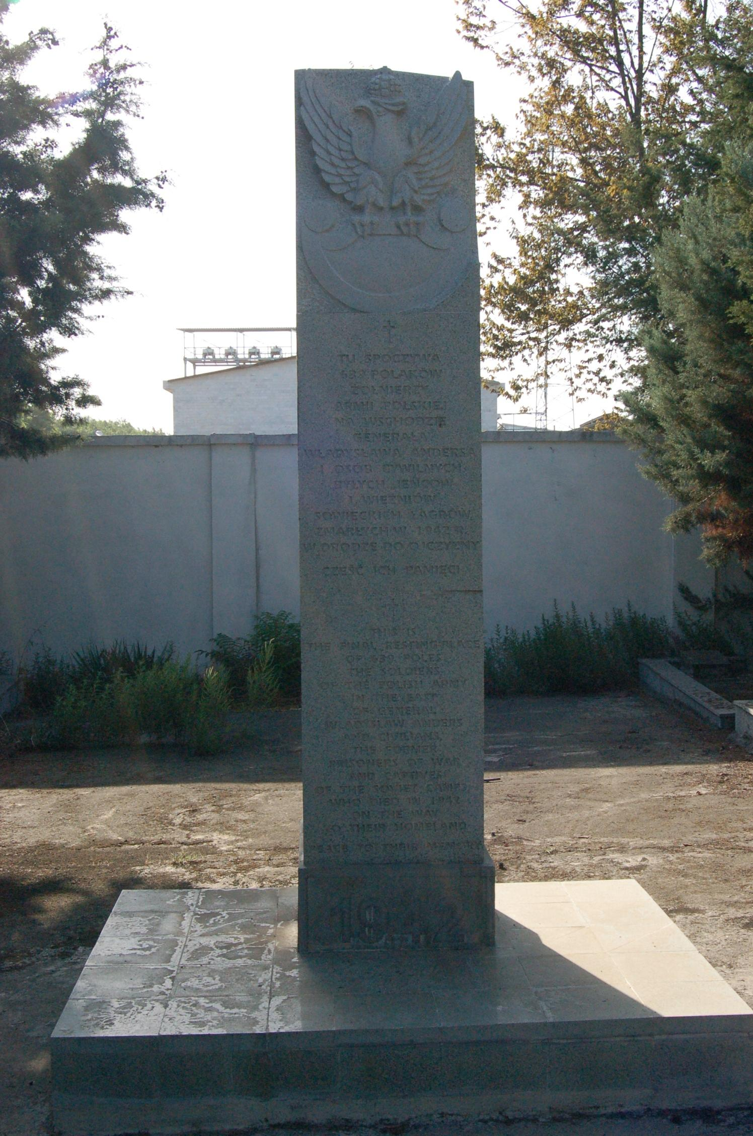 Polish Cementery in Bandar-e Anzali - The obelisk